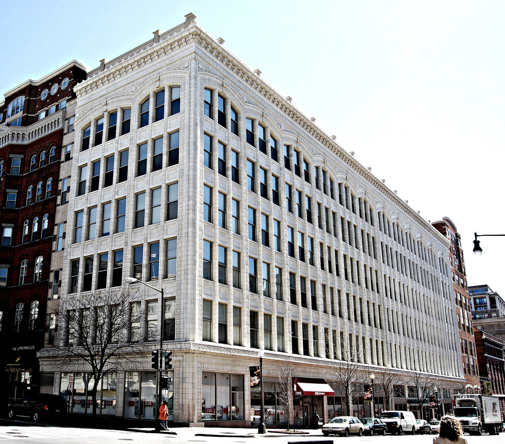 (former) Lanburgh's Department Store - flagship, downtown Washington, D.C. Corner of 8th & E St, NW Built 1916 (added onto in 1924 and 1941)